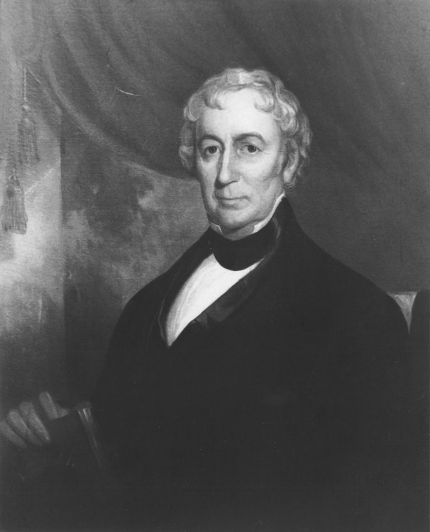 Robert Bruce, First Chancellor of the University of Pittsburgh (date 1835 by John Clarendon Darley?) University of Pittsburgh Digital Archives